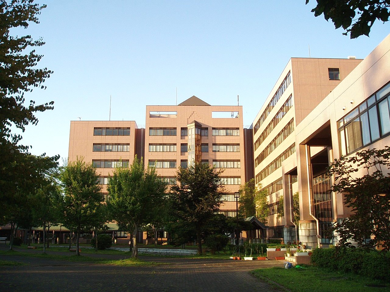 The Main Bldg. of Ami Campus (College of Agriculture), Ibaraki University. Located in Ami Town, Inashiki, Ibaraki Pref., Japan.